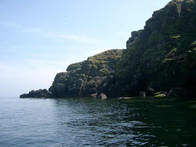 Glunimore Island near Kintyre, Scotland